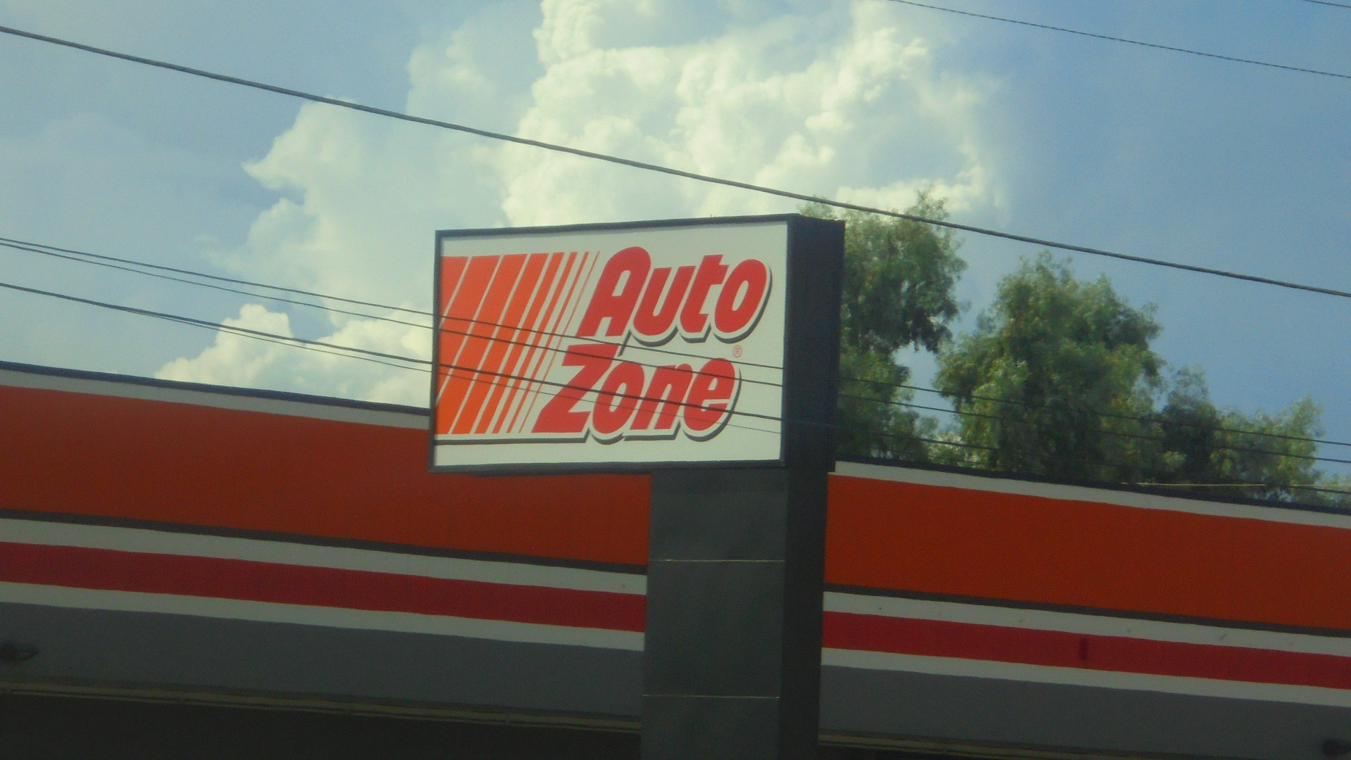 Auto Zone sign